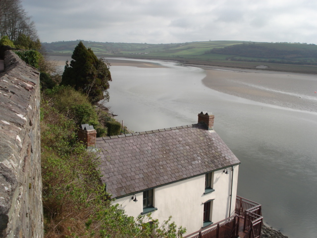 The Boathouse